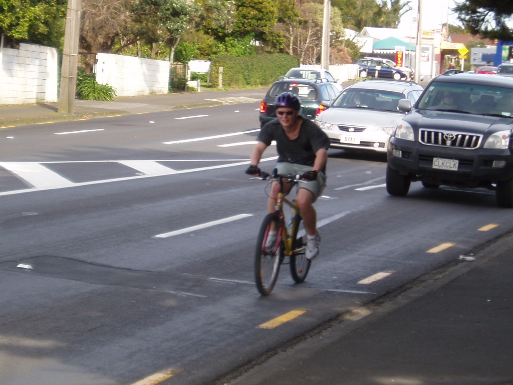 Cyclist on Lake Road, North Shore City